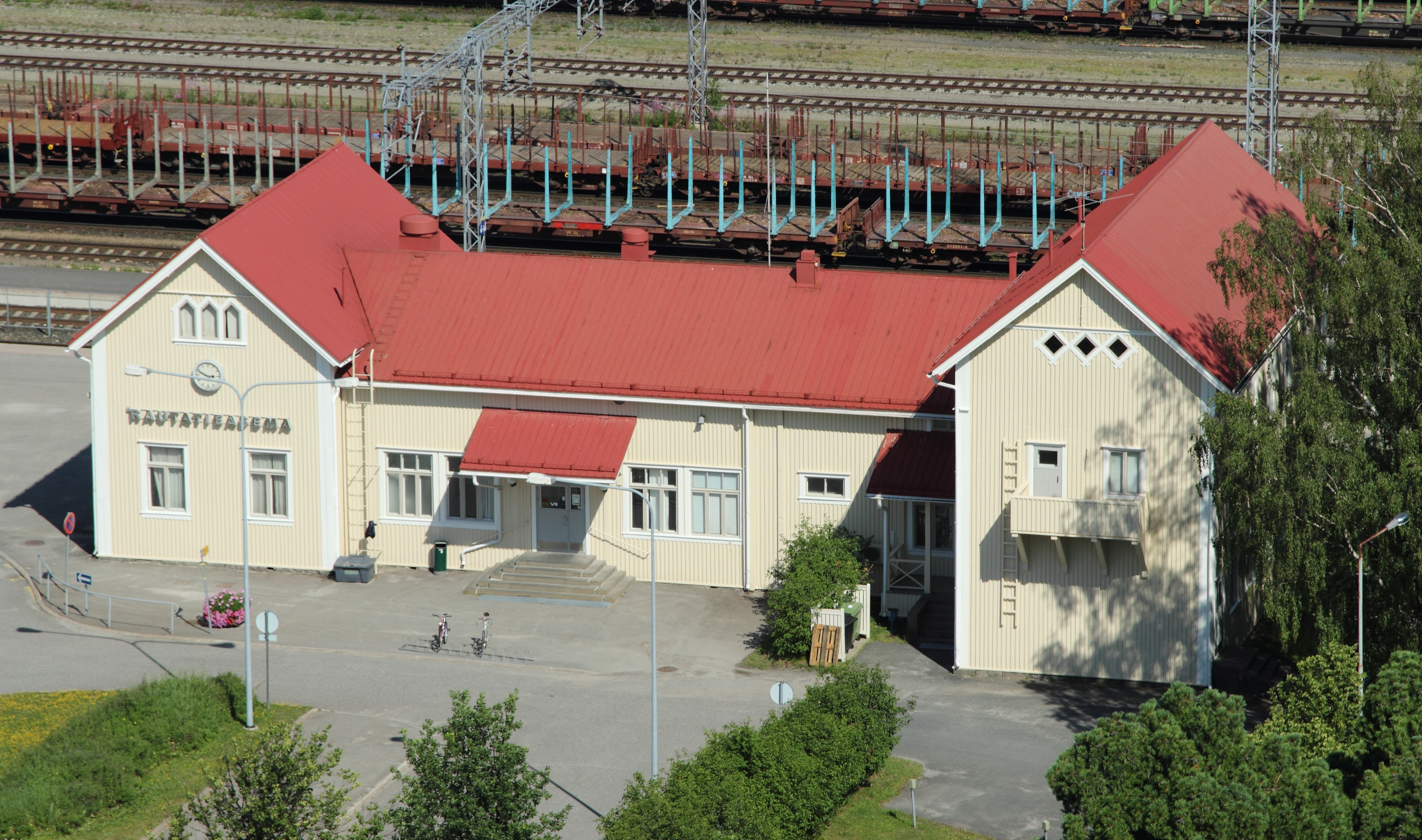 The Kemi railway station Finland.